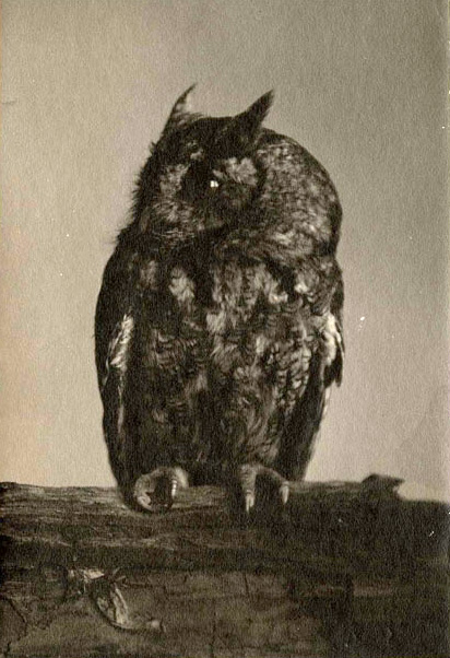 One of Gene Stratton-Porter's portraits of an Eastern Screech Owl.